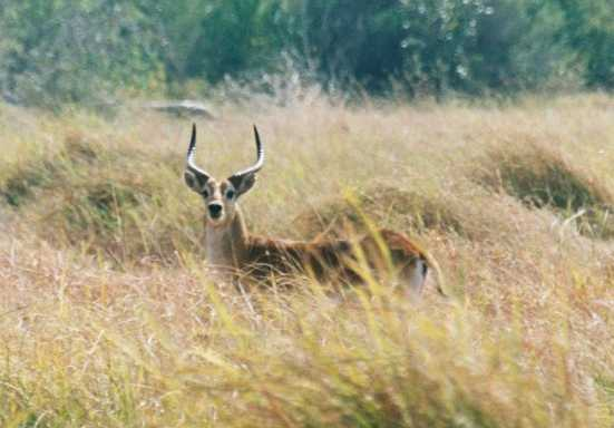 Red Lechwe Image taken by Duncan Wright (User:Sabine's Sunbird). Taken in Moremi National Park, Botswana